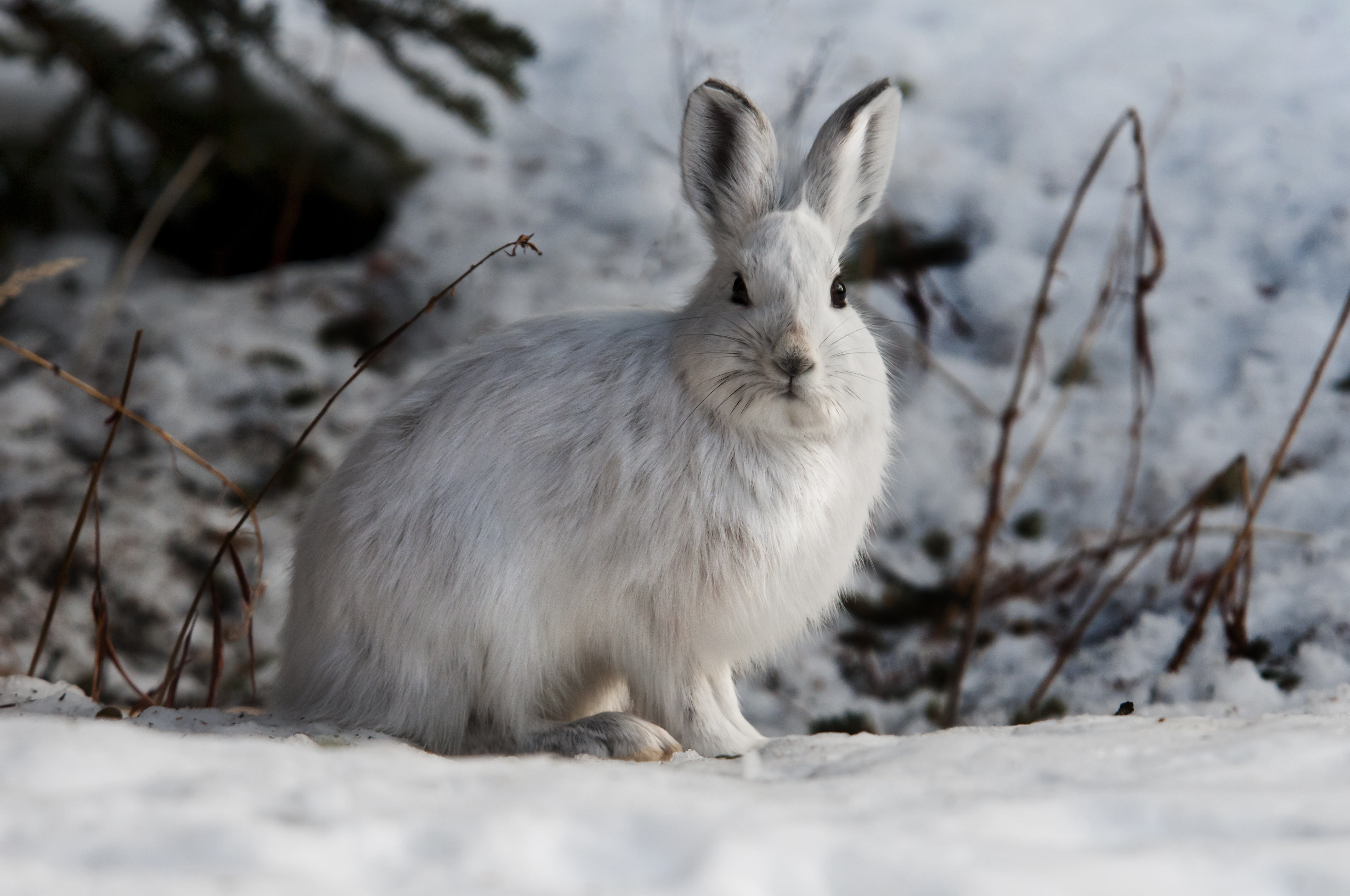 NPS Photo Tim Rains Check out the official Denali Facebook, Twitter and YouTube pages: Like us on Facebook: Follow us on Twitter: Denali YouTube Channel